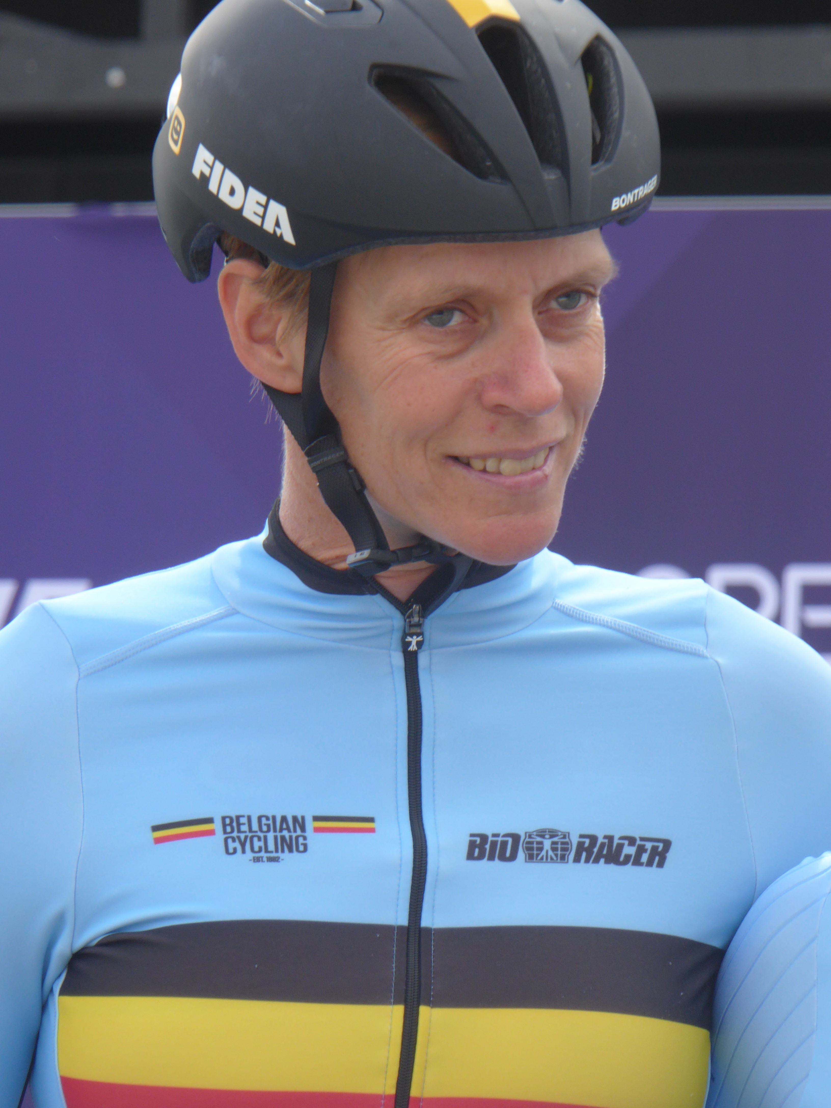 Ellen Van Loy (Belgium), prior to the women's road race at the 2018 UEC European Road Cycling Championships in Glasgow.